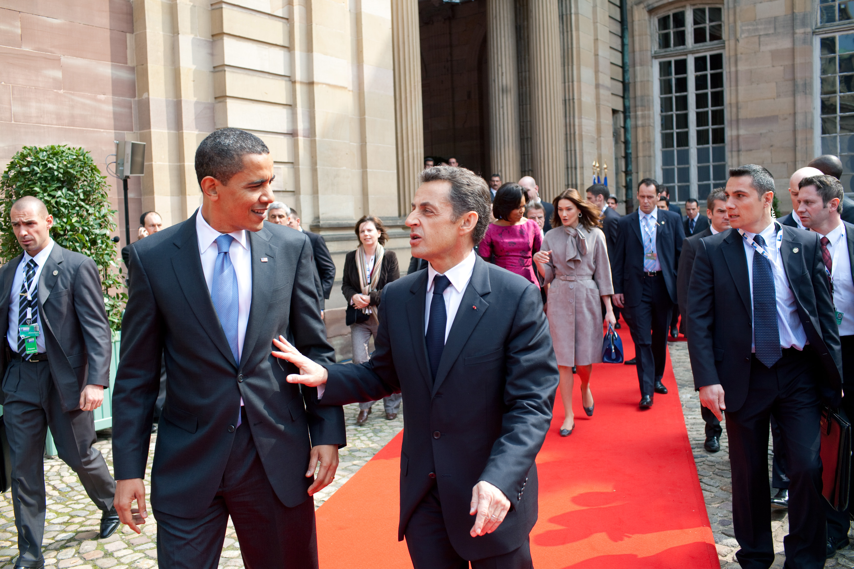 President Barack Obama walks with French President Nicolas Sarkozy from the Palais Rohan (Palace Rohan) April 3, 2009, following their meeting in Strausbourg, France. Official White House Photo by Pete Souza